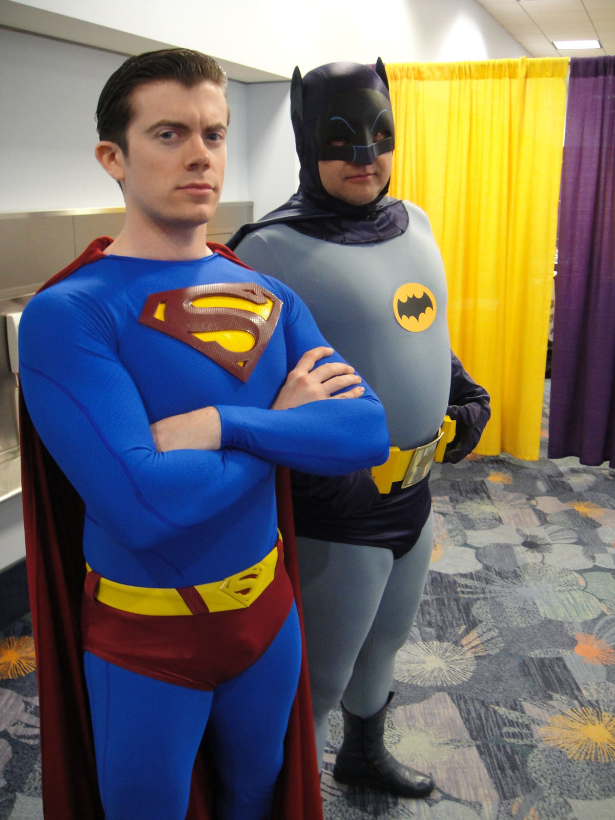 Wizard World Anaheim 2011 - Superman and Batman